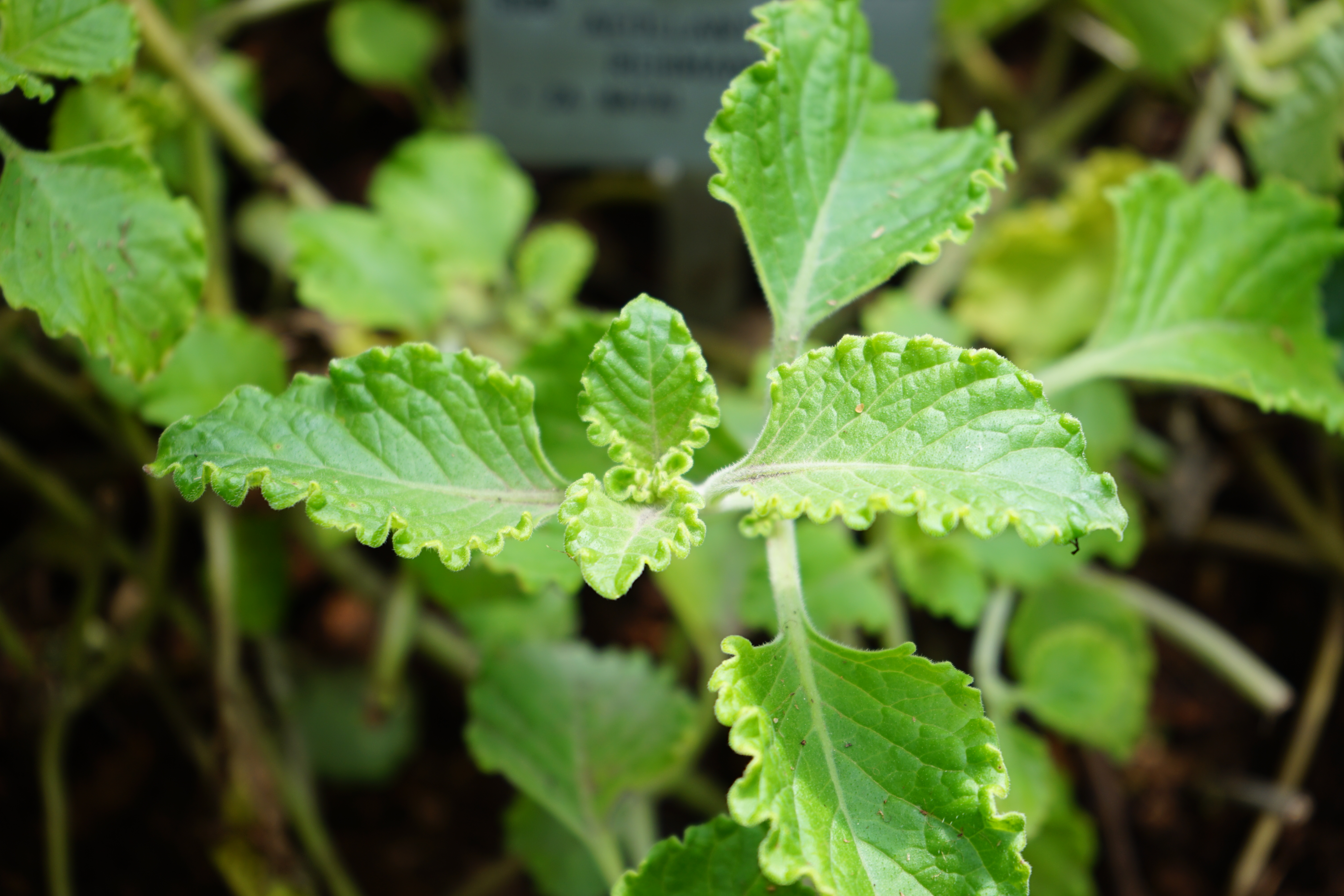 Aeollanthus rehmannii leaves close-up